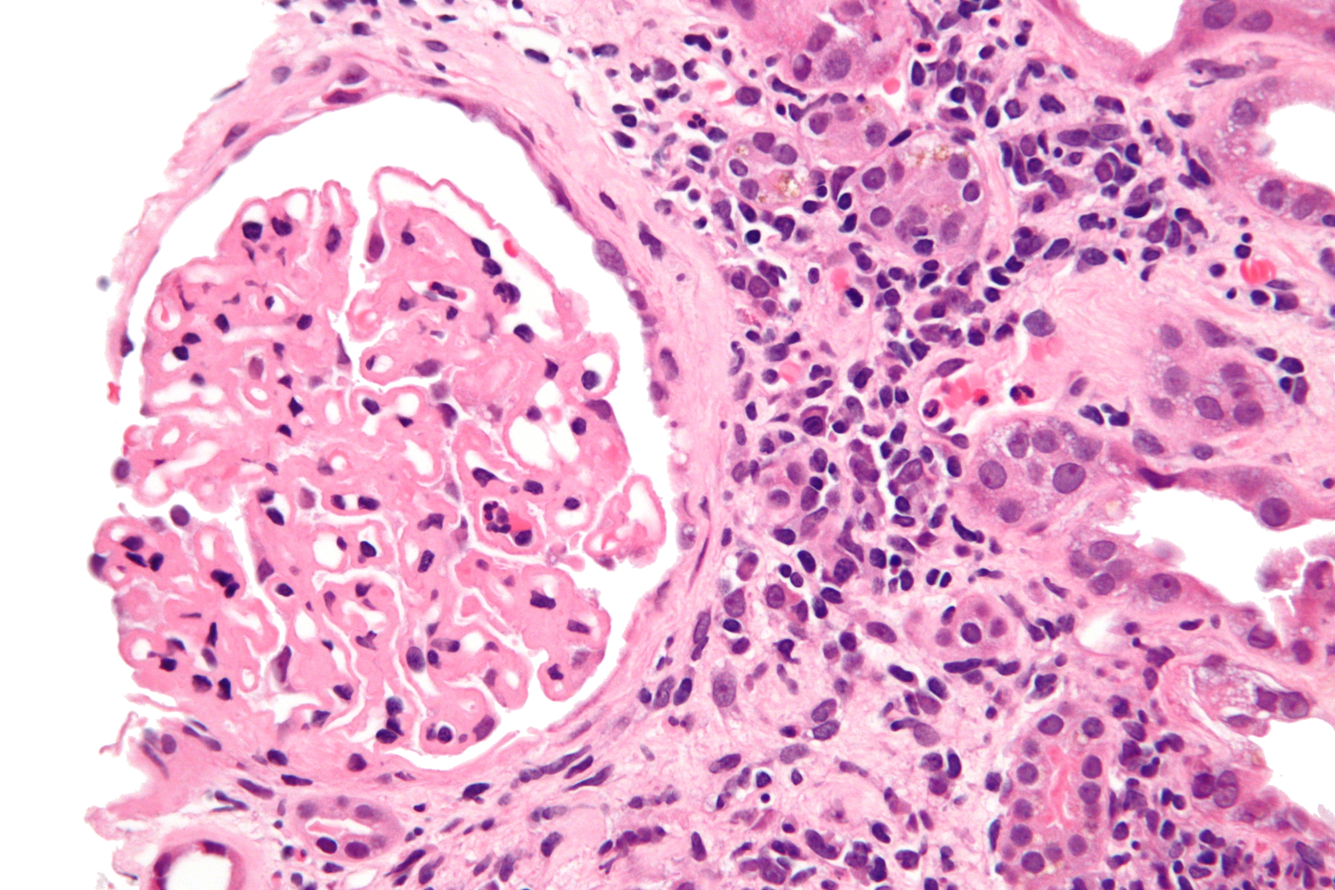 Very high magnification micrograph of membranous nephropathy, abbreviated MN. MN may also be referred to as membranous glomerulonephritis, abbreviated MGN. Kidney biopsy. H&E stain. The characteristic feature on light microscopy is basement membrane thickening/spike formation, which is best seen with silver stains. On electron microscopy, subepithelial deposits are seen. Related images Intermed. mag. MPAS. High mag. MPAS. Very high mag. MPAS. Very high mag. MPAS. Very high mag. MPAS. (cropped) High mag. HE. Very high mag. HE. Very high mag. PAS.